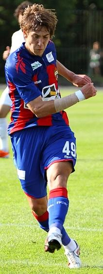 Aleksandr Nikolayevich Vasilyev with PFC CSKA Moscow.